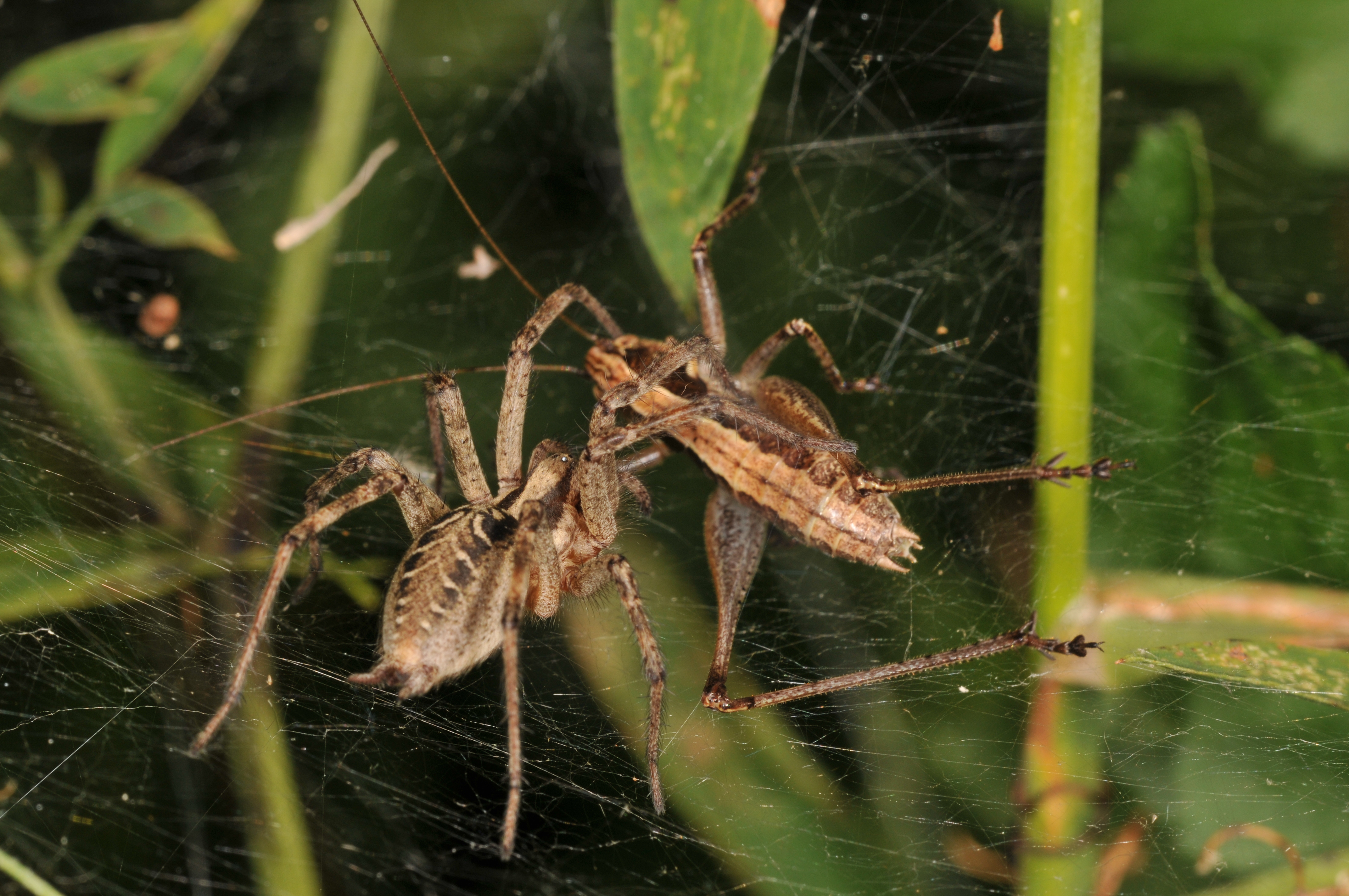 Agelena labyrinthica, Croatia, Istria, Brseč 15 km south Lovran, 45°10`23,80``N 14°13`37,25``E